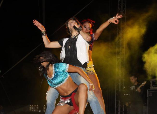 menny interpretando princesa tibetana